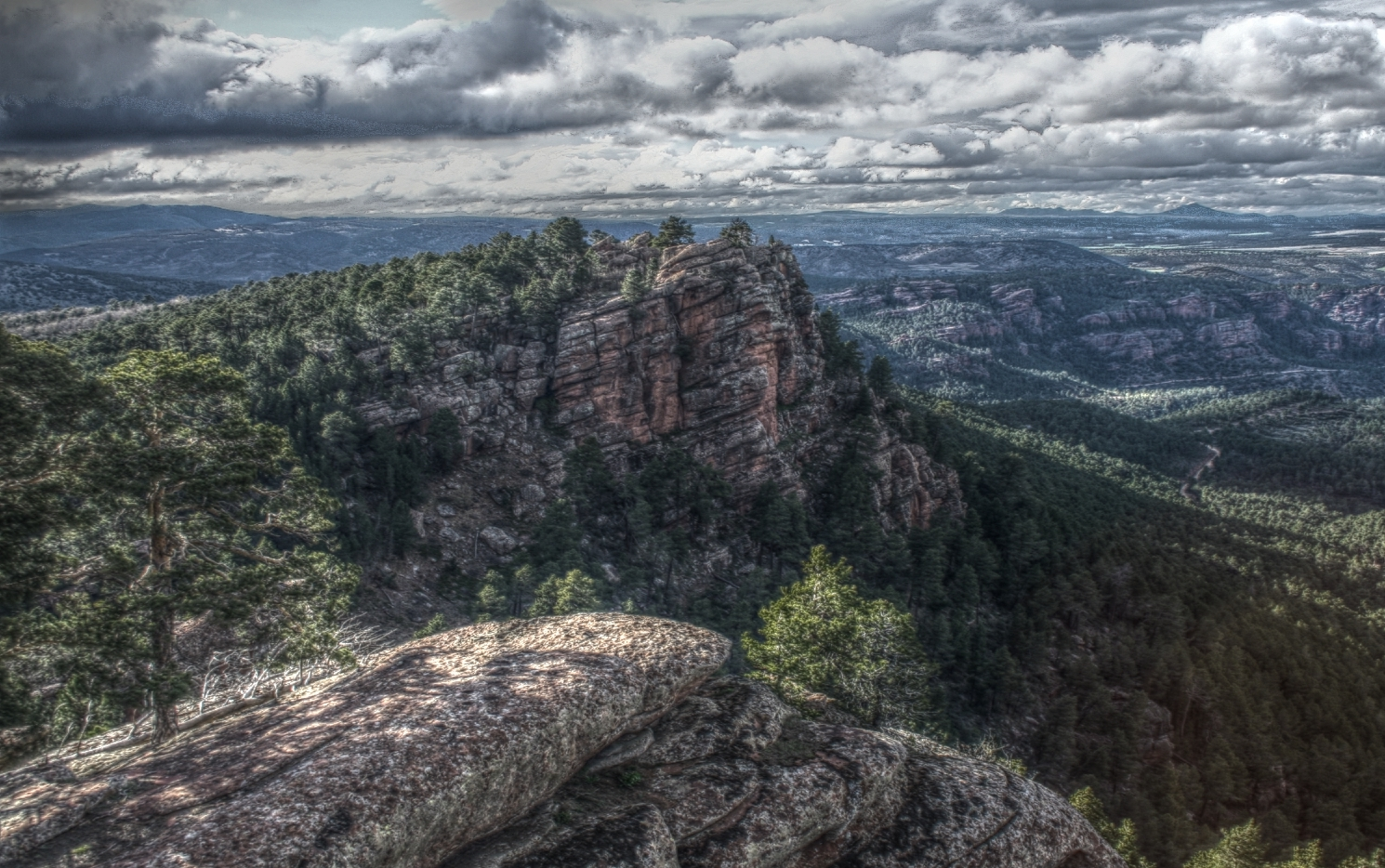 Qtpfsgui 1.9.3 tonemapping parameters: Operator: Mantiuk Parameters: Contrast Equalization factor: 0.279 Saturation Factor: 1.413 Detail Factor: 1 PreGamma: 1